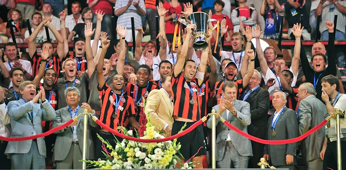 Шахтар володар суперкубка України 2010